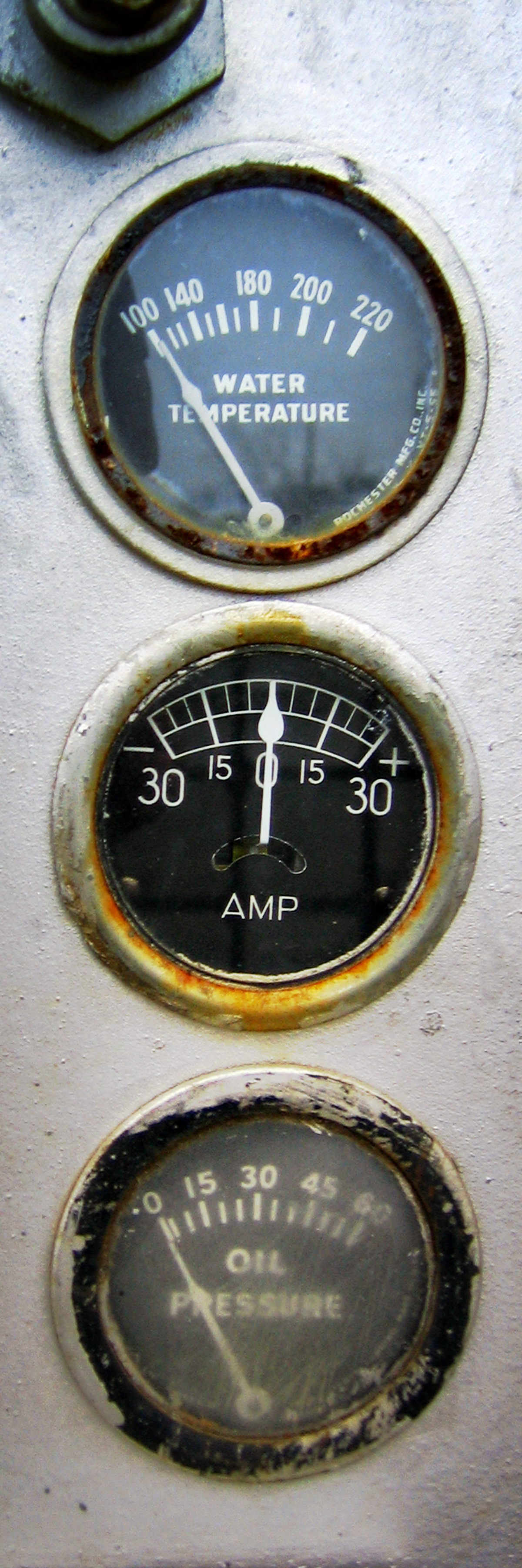 Water temperature, AMP, oil pressure.